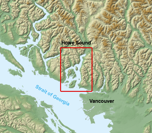 Location of Howe Sound in British Columbia, Canada.